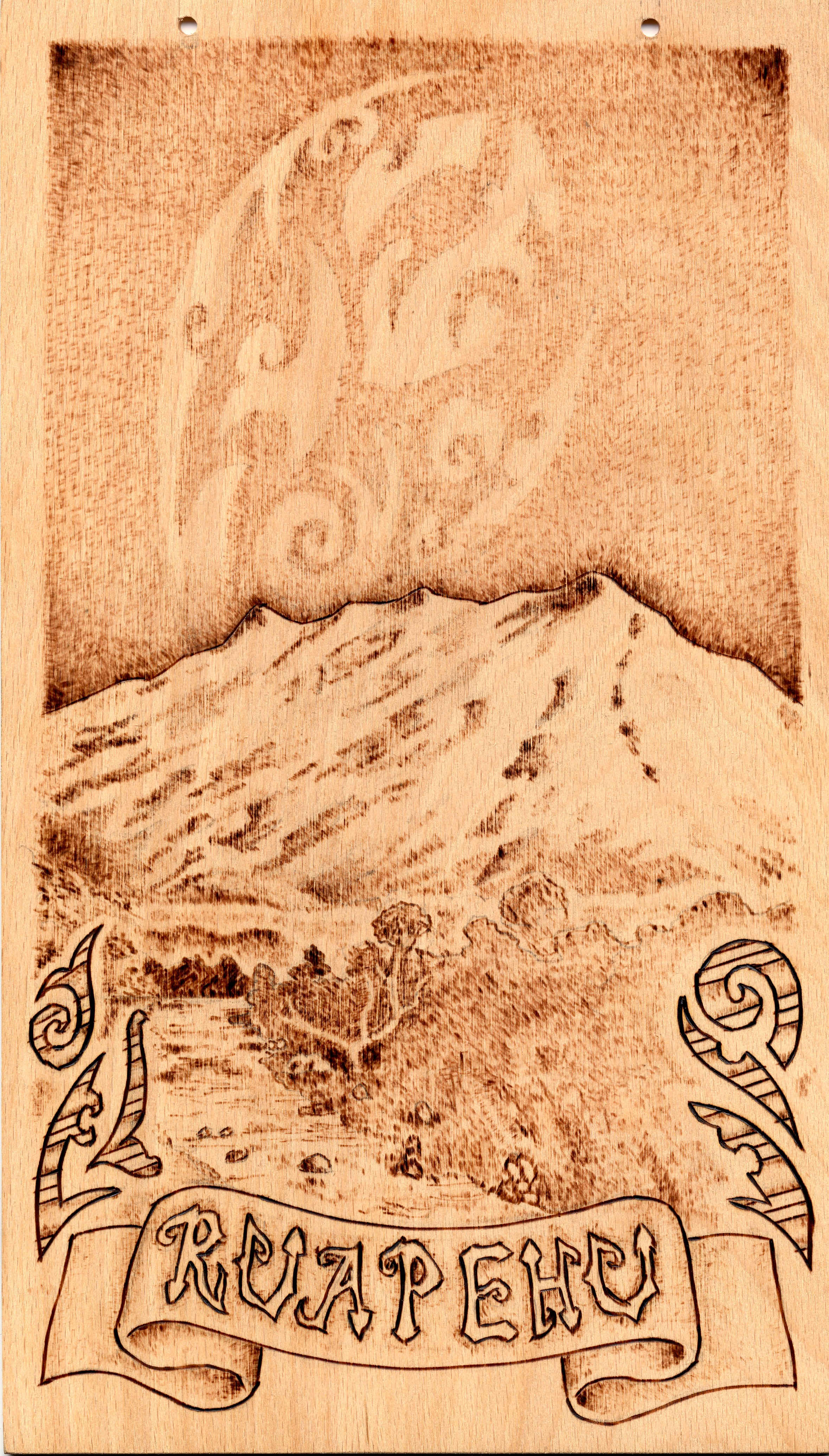 Mt. Ruapehu, made by Párvusz.